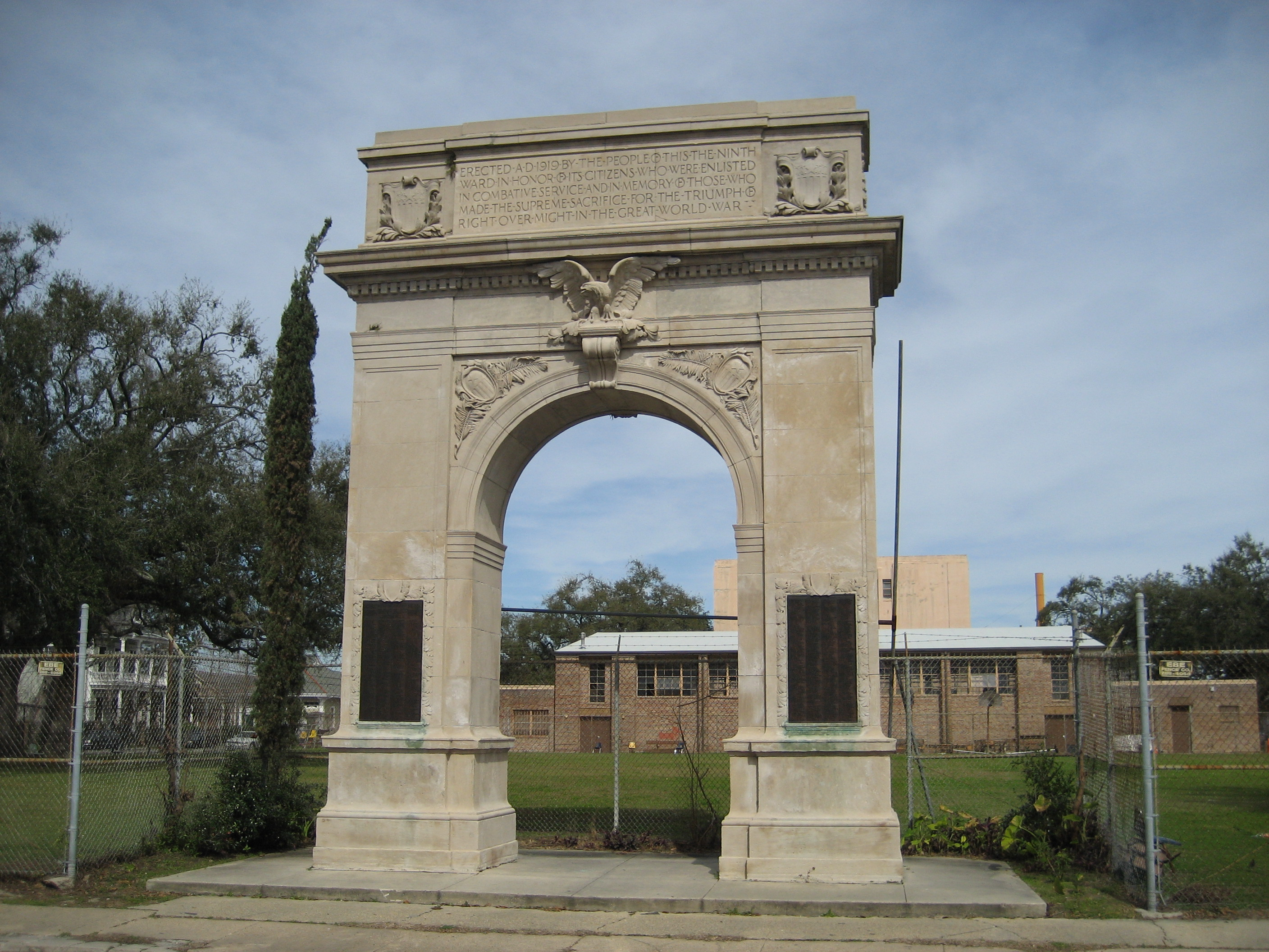 New Orleans: 1919 monument arch commemorating 9th Ward residents in the Great War. Bywater neighborhood